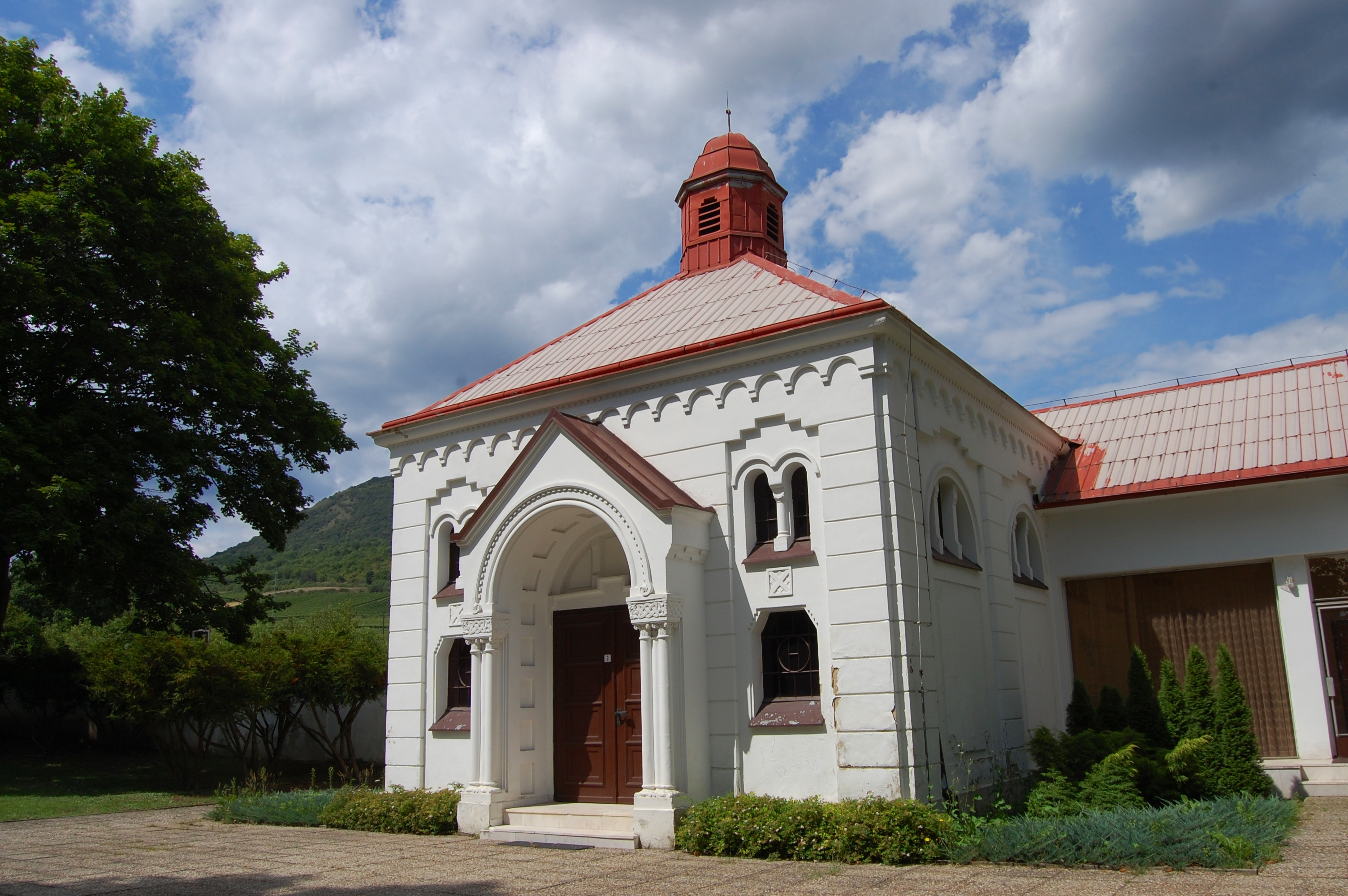 Former Jewish ceremonial hall at Jewish cemetery in Lovosice, Czech Republic